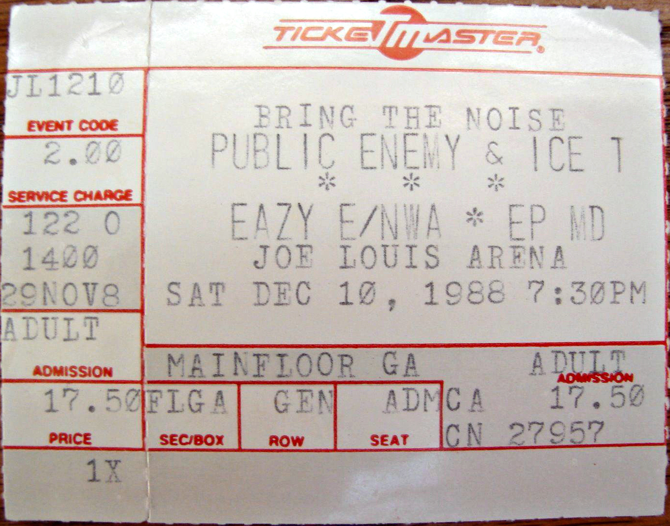 A concert ticket for the Public Enemy tour at the Joe Louis Arena in Detroit, Michigan on December 10, 1988. The concert featured Public Enemy, Ice-T, N.W.A, Eazy-E and EPMD.